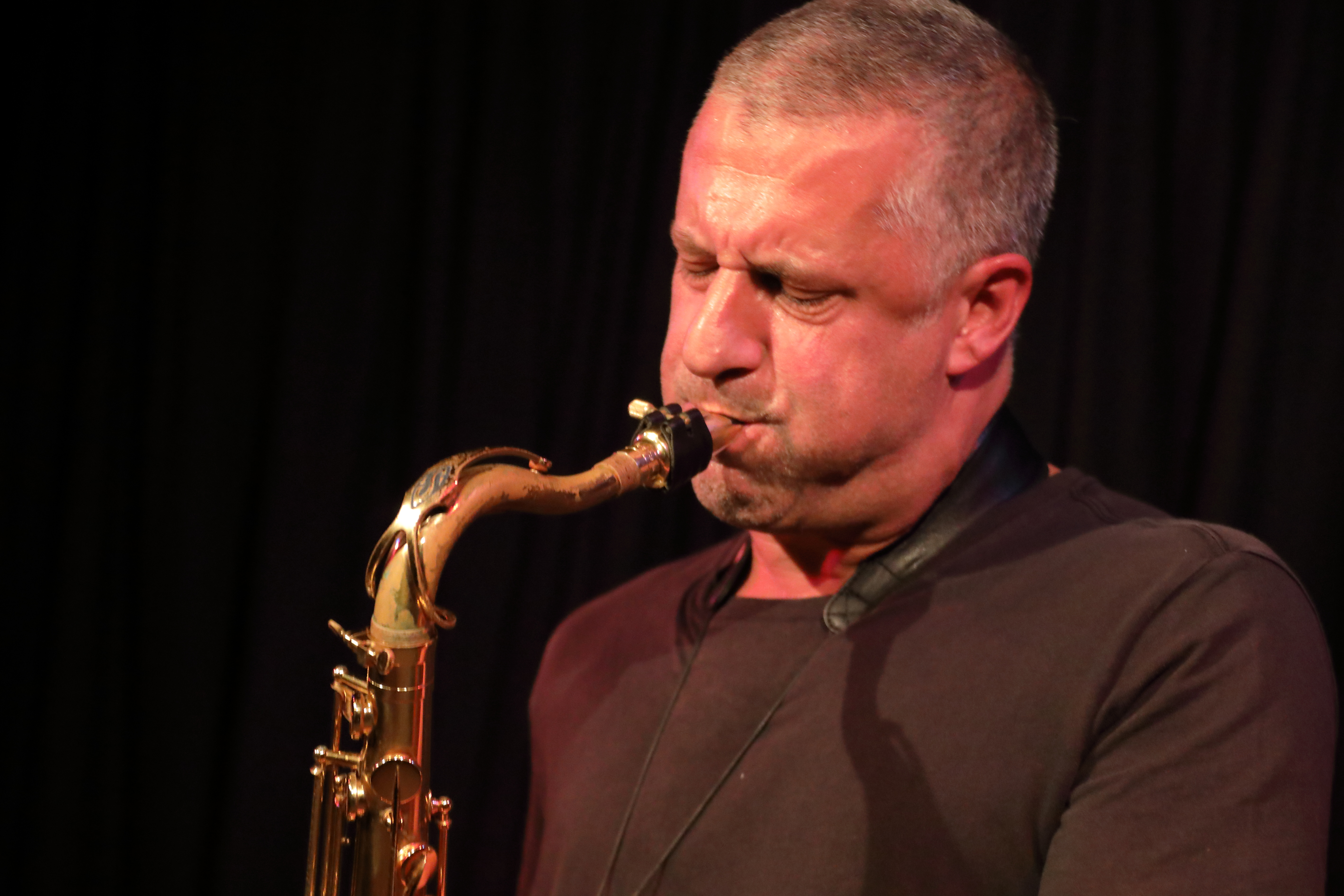 The Rodrigo Amado This Is Our Language 4TET at Club W71, Weikersheim. The members are Rodrigo Amado (sax), Joe McPhee (sax), Kent Kessler (db) & Chris Corsano (dr).